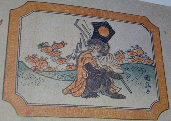 signed inset by Utagawa Kunihiro for a print by Toyokuni II